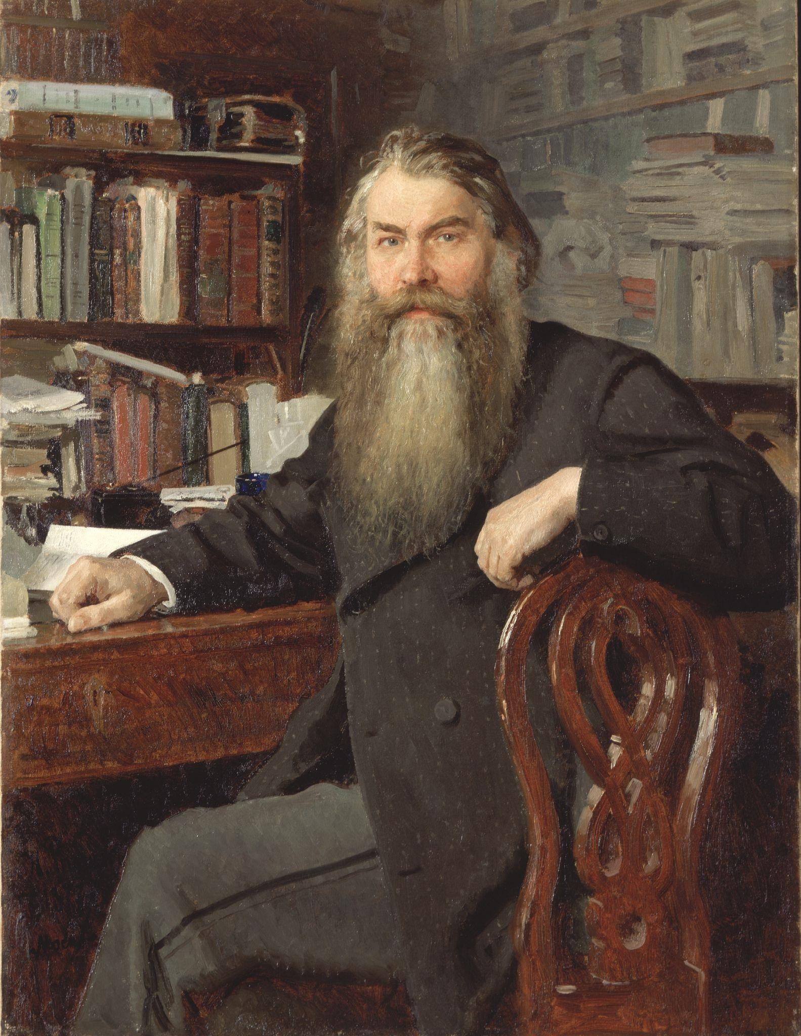 Portrait of the historian and archaeologist Ivan Egorovich Zabelin